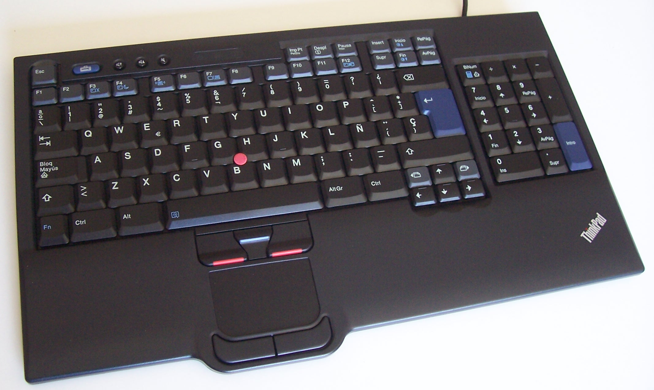 Lenovo ThinkPad USB Keyboard with UltraNav Spanish layout